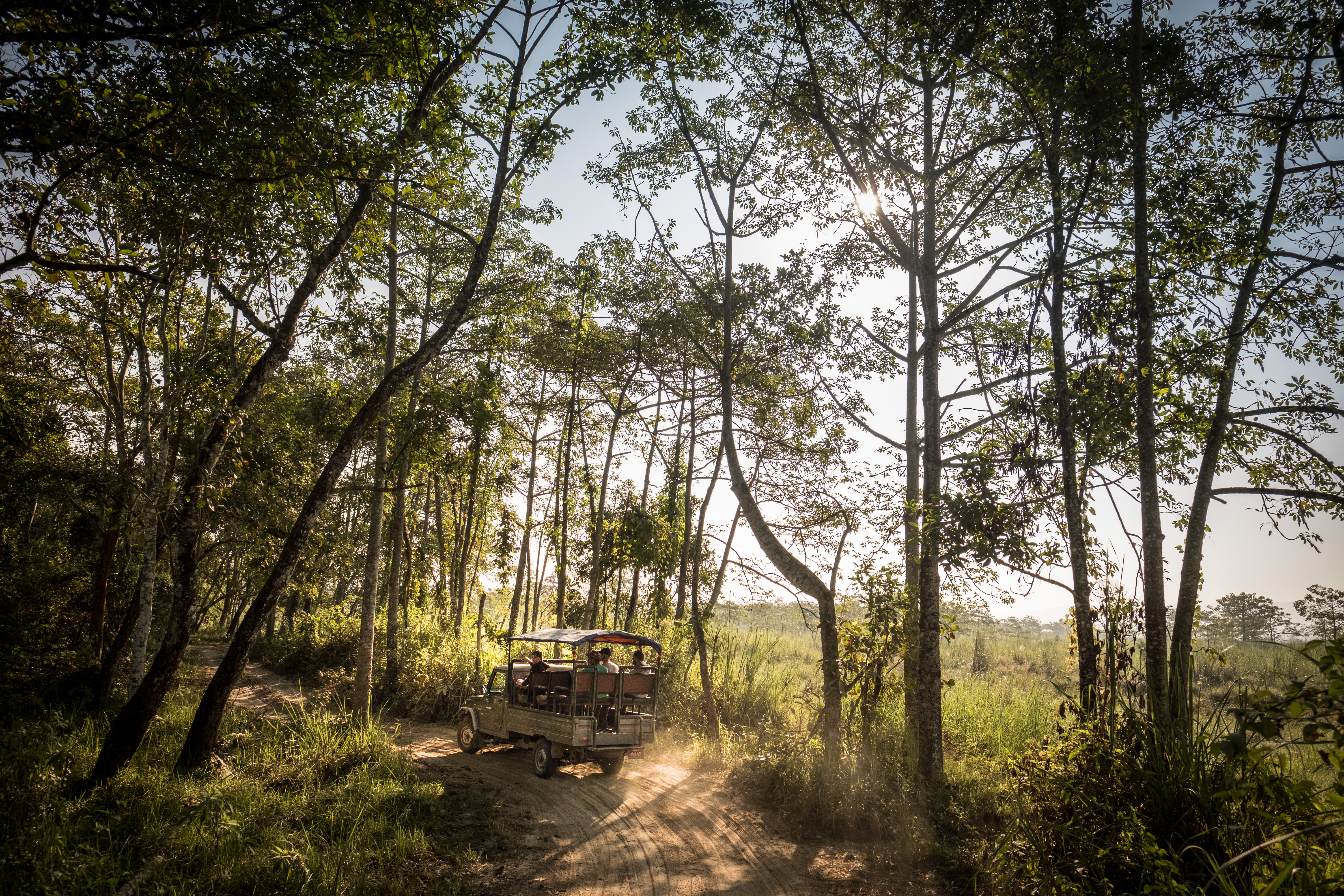 November 2017. Jeep safaris are replacing elephant safaris in Chitwan National Park and some of the community forests, catering to tourists more sensitive to animal rights issues or who are simply looking for a diferent experience. Kumrose Community Forest, Kumrose, Nepal. Photograph by Jason Houston for USAID